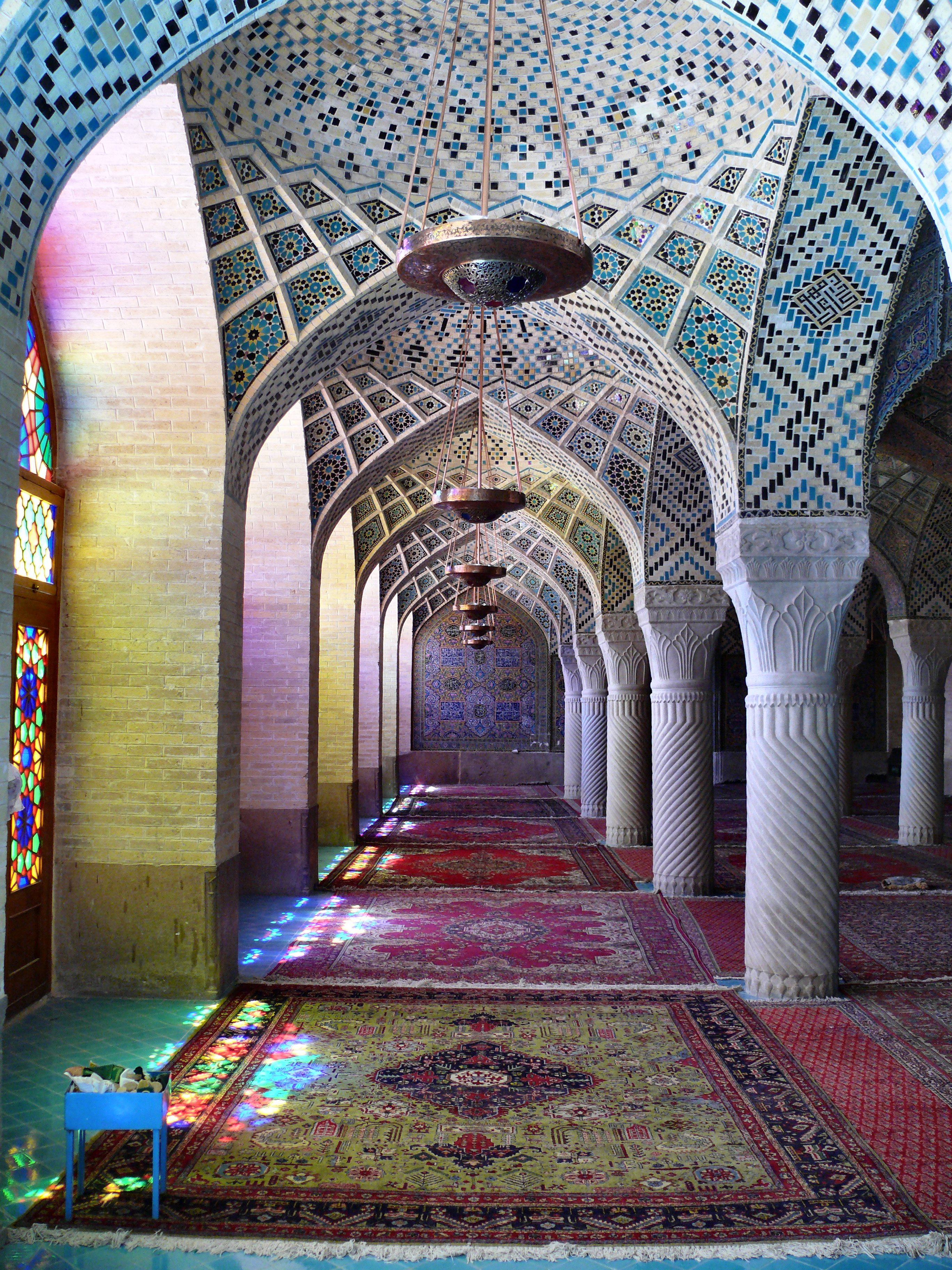 The Nasr ol Molk mosque in Shiraz.